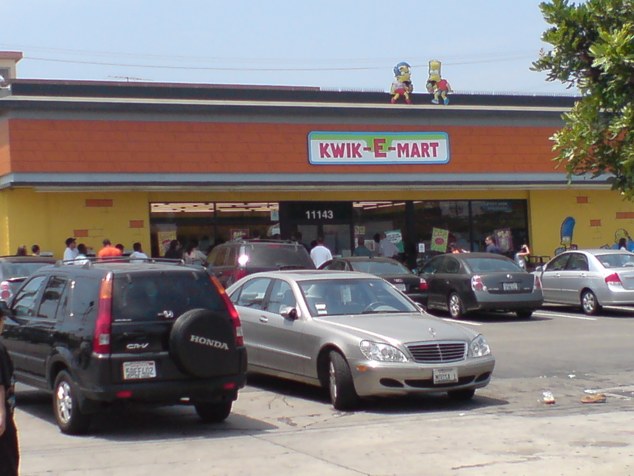 en:7-Eleven transformed into Kwik-E-Mart in Culver City, CA